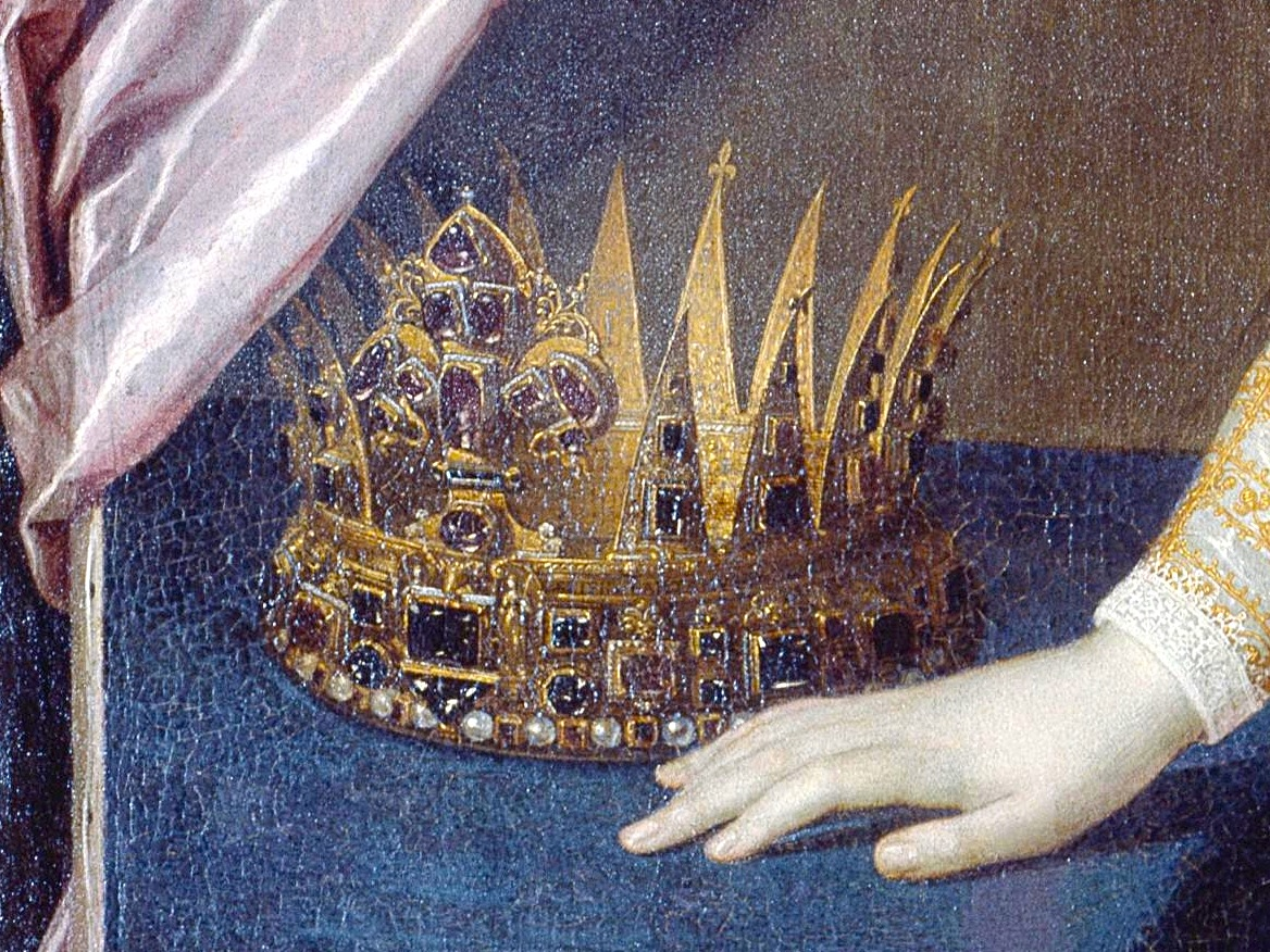 Official portrait of Grand Duchess Christina of Lorraine, wife to Ferdinando I de' Medici, with the detail of the grand ducal crown shaped by Jacques Bylivelt.